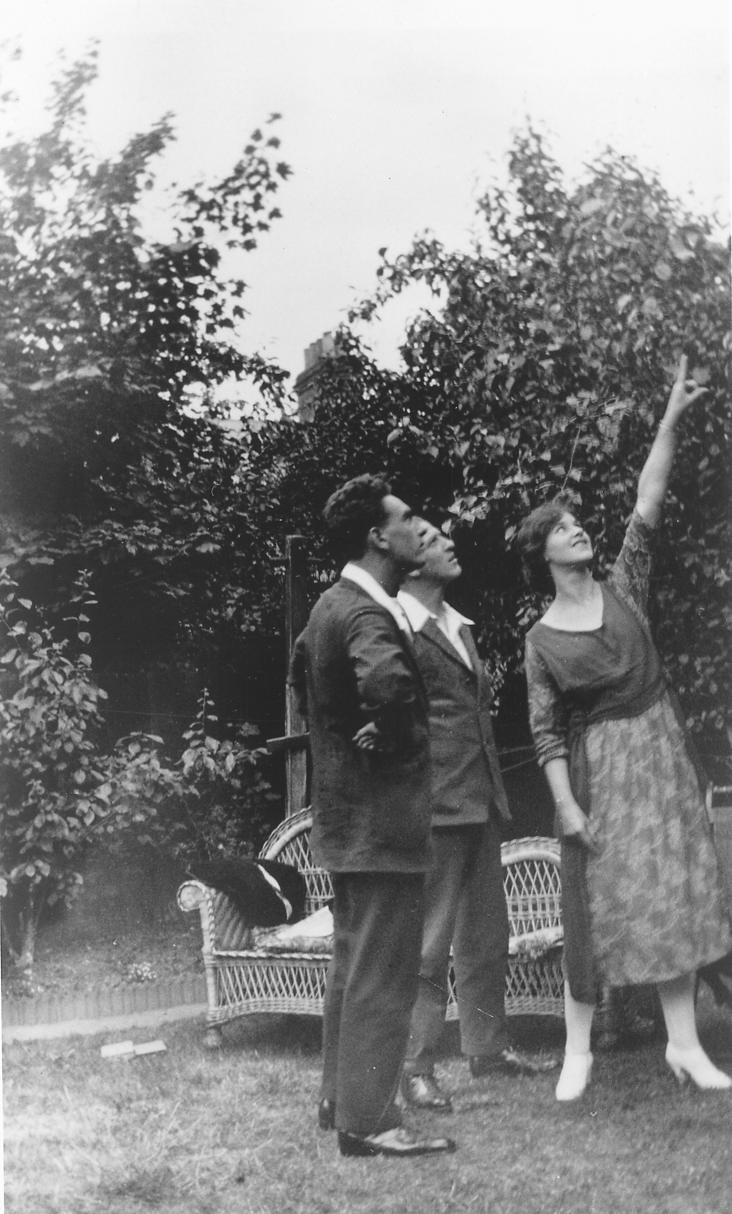 Freddy Bywaters, Percy Thompson and Edith Thompson in the garden of 41 Kensington Crescent, Ilford, on Sunday 10 July 1922.